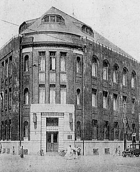 Chosen Commercial Bank Head Office